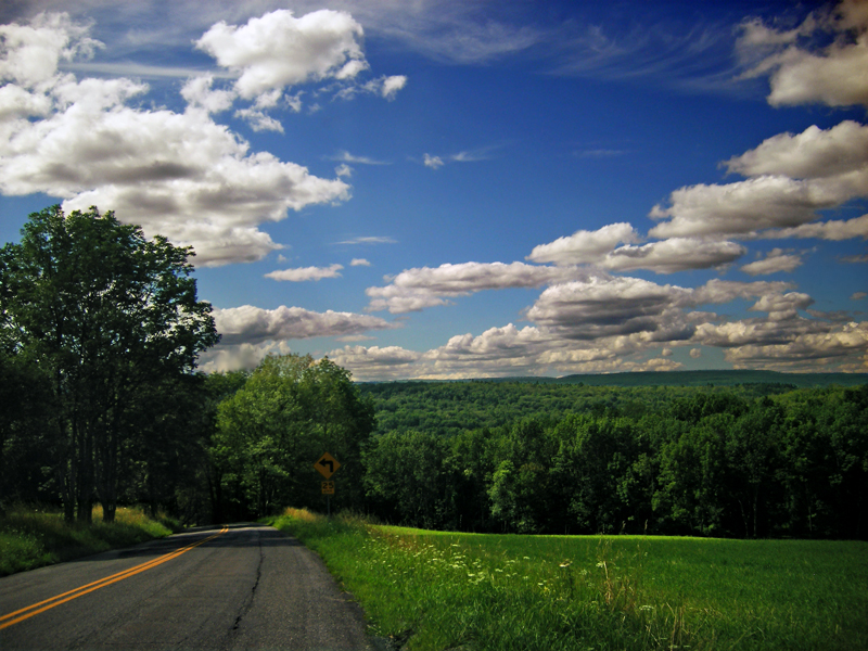 PA Route 314, Paradise Valley, Monroe County.